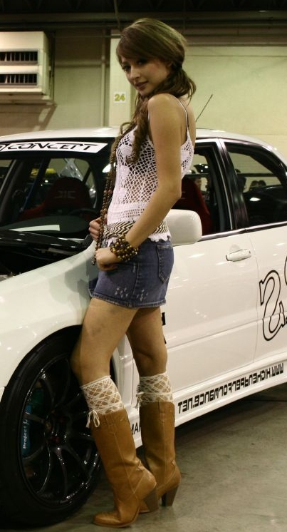 American born Japanese pop singer model and television personality Leah Dizon, at auto show in Oxnard, California